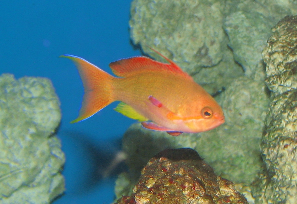 Lyretail Anthias at Newport Aquarium in Newport, Kentucky